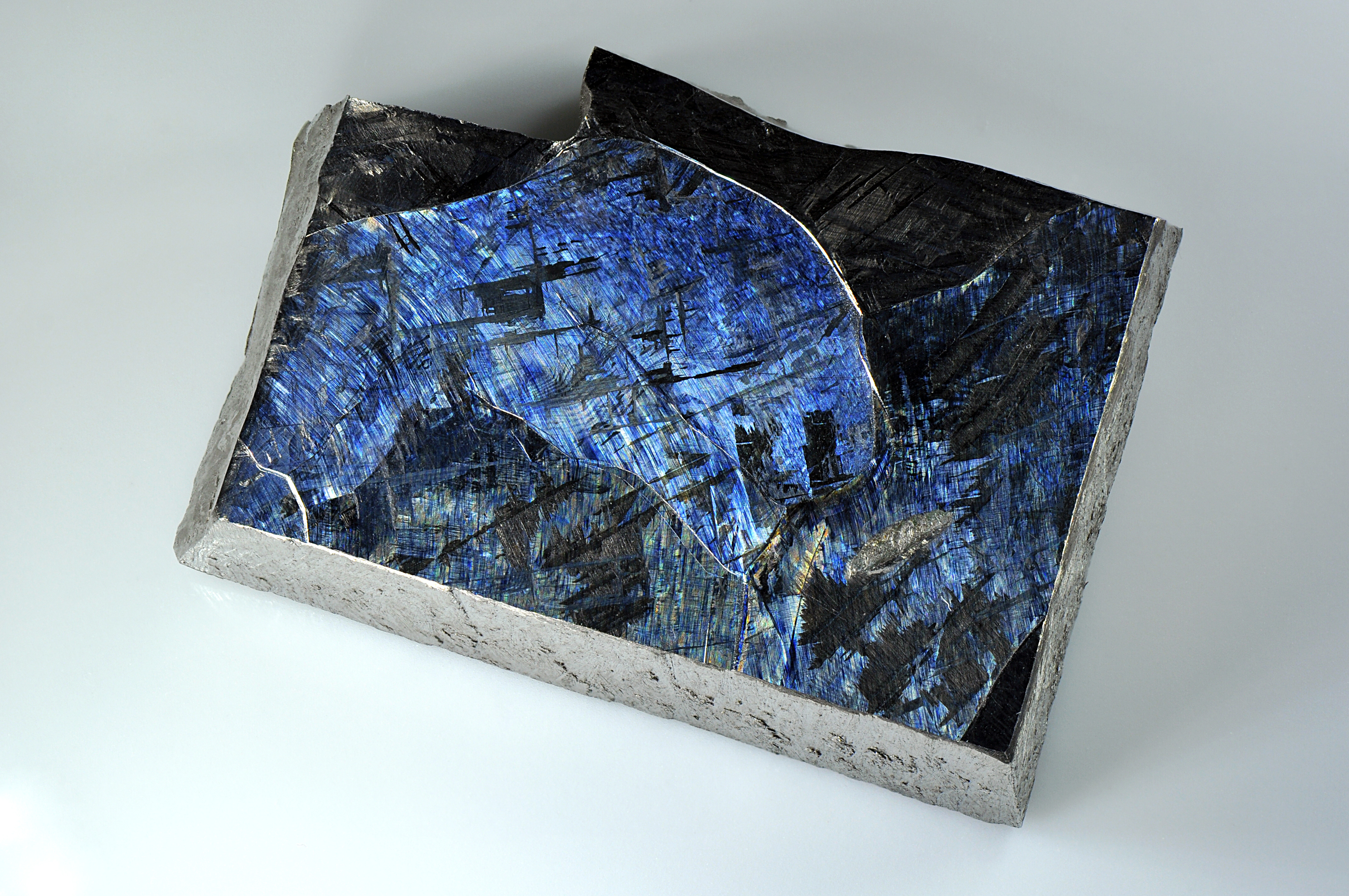 High purity (99.999%) titanium